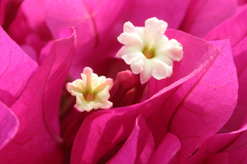 Unknown flower